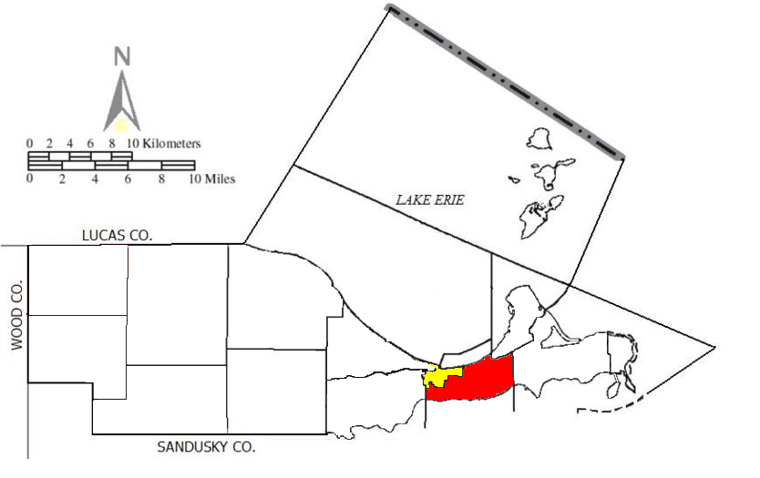 Made by the US Census and then modified by me